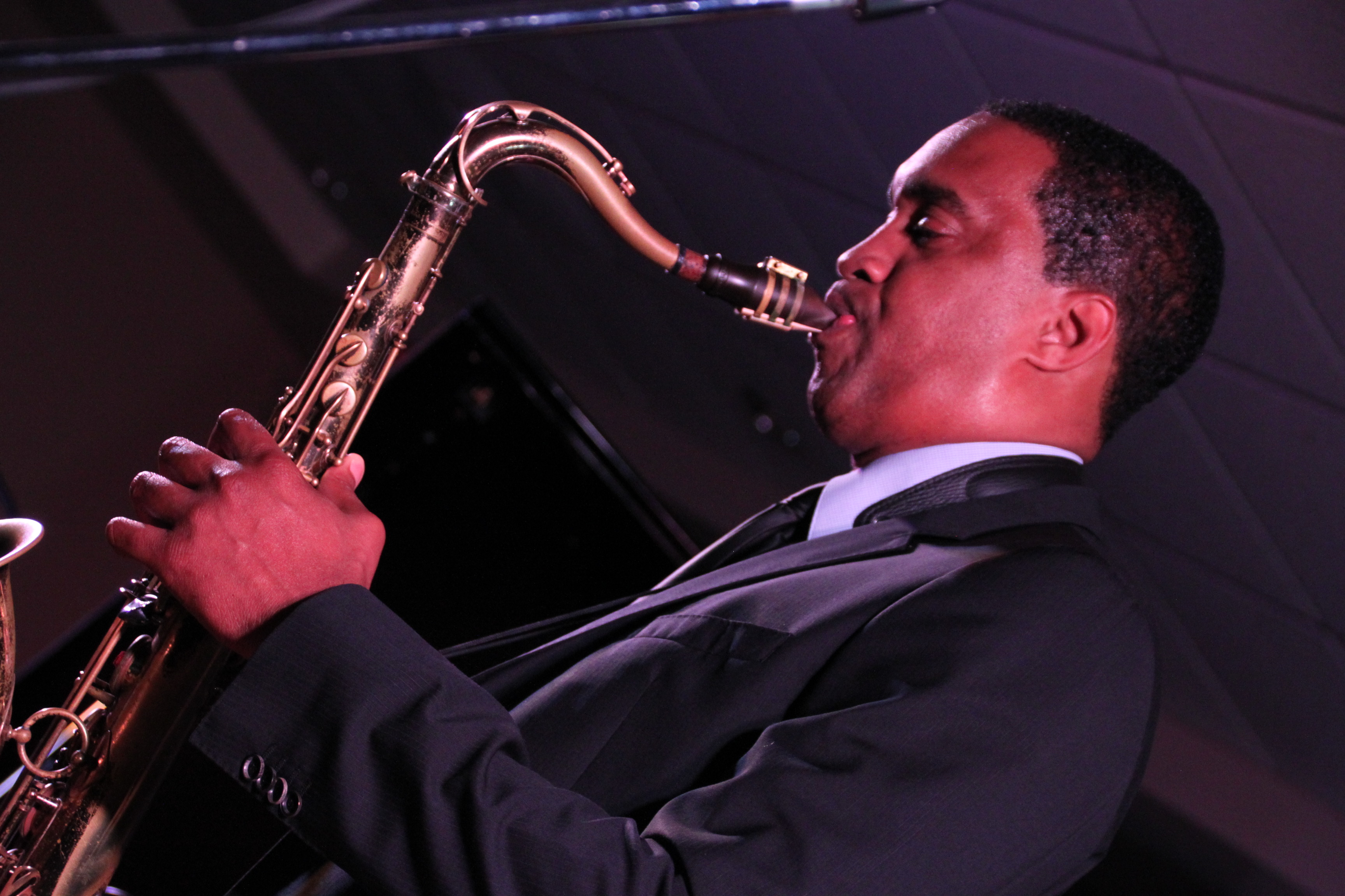 Javon Jackson plays in Norfolk VA 2016-09-24